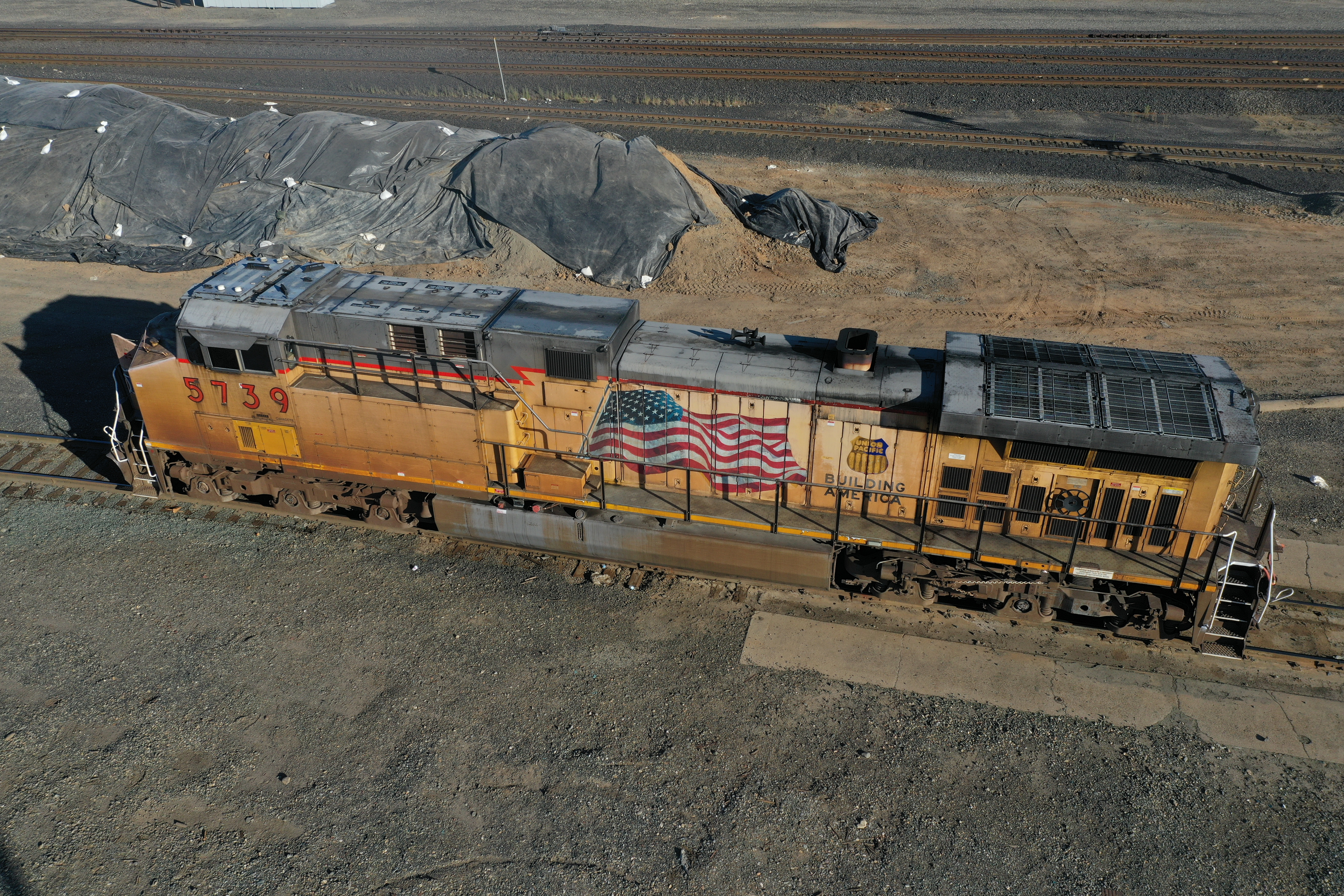 Union Pacific 5739 (AC44CWCTE)